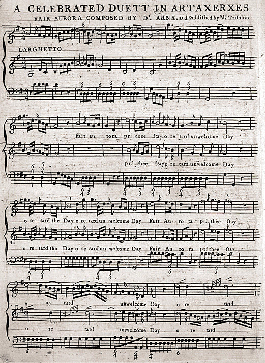 Page 1 of the piano/vocal score for "Fair Aurora" from Artaxerxes by Thomas Arne (1710-1778)